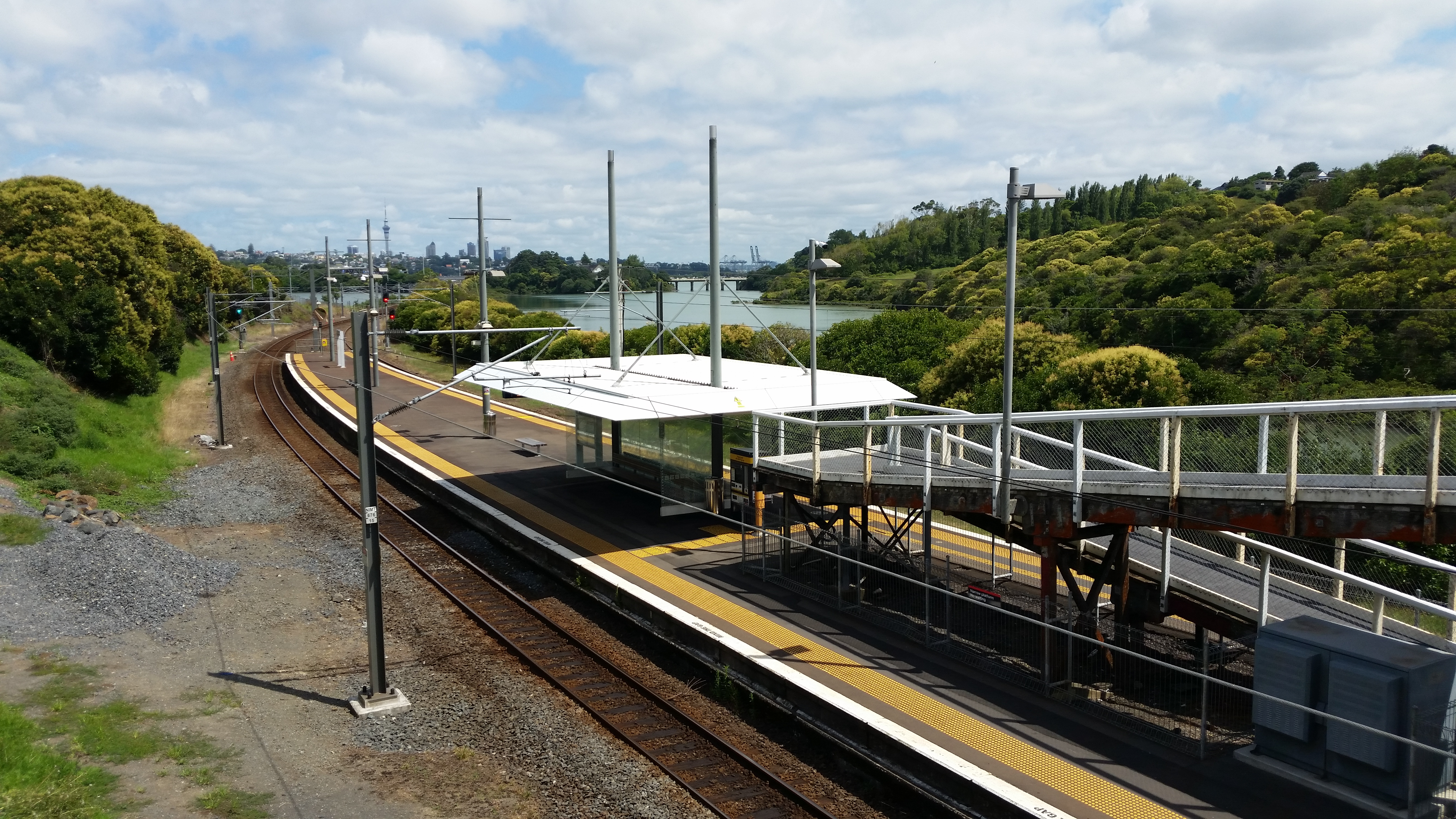 Photo of Meadowbank Railway Station in Auckland, New Zealand